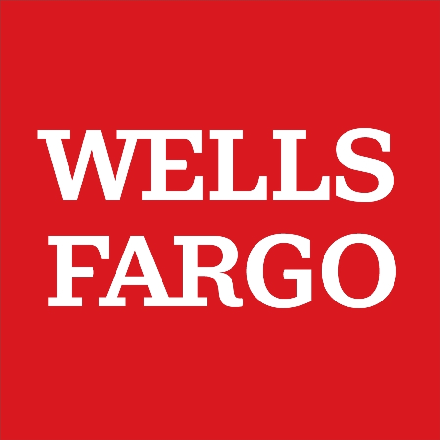 The logo of Wells Fargo